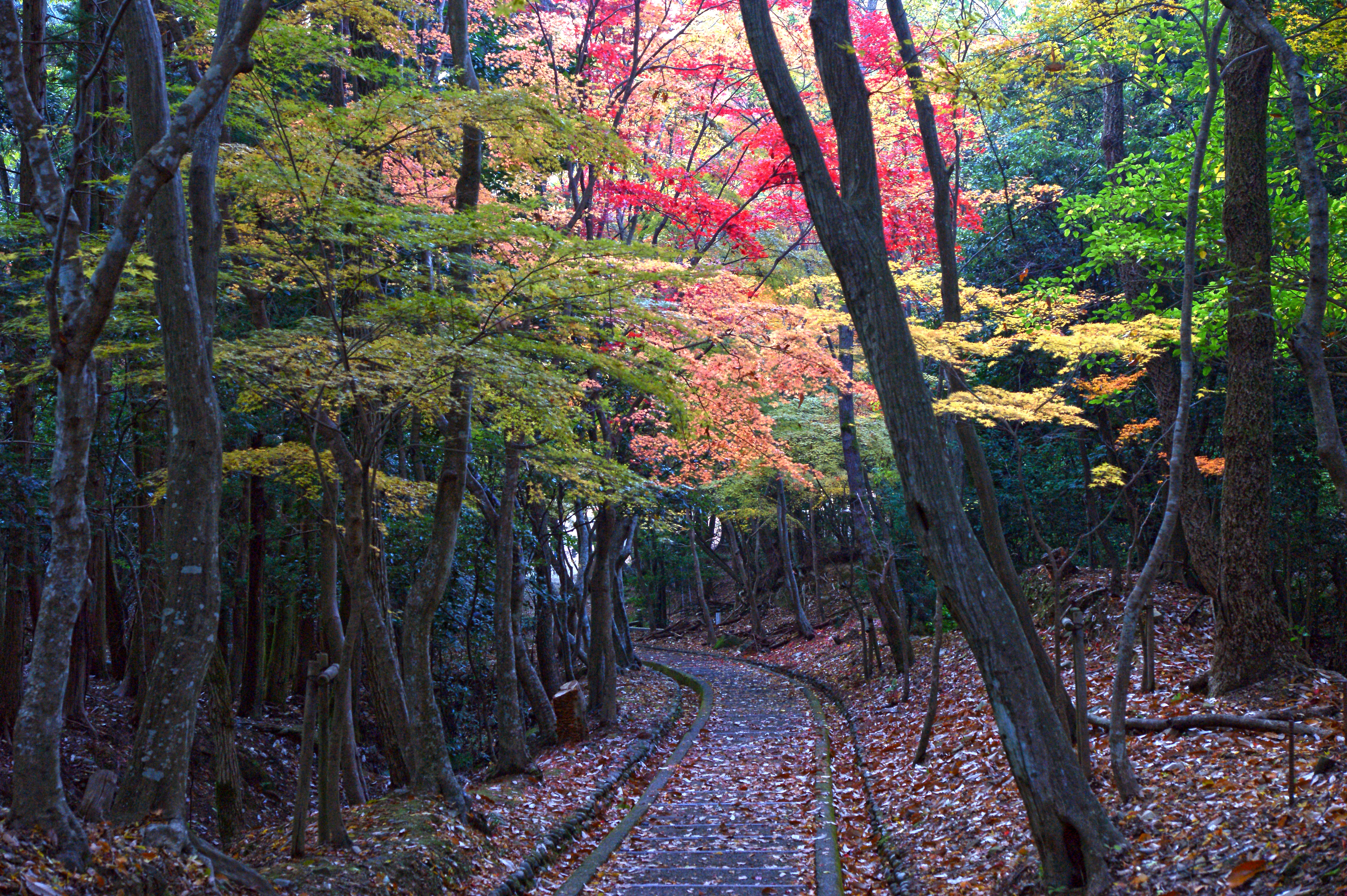 Momiji-dani (Tatsuno Park), Tatsuno, Hyogo prefecture, Japan